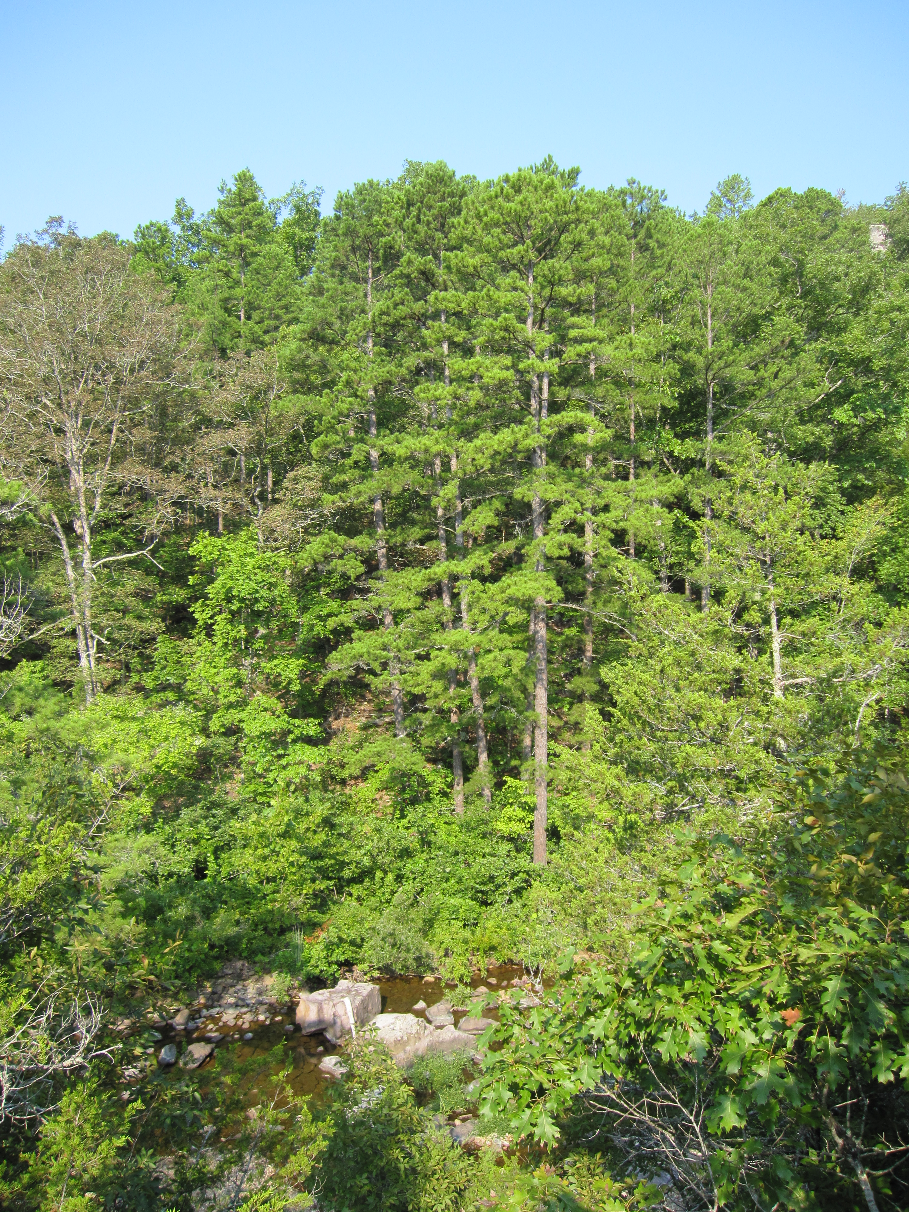 Shortleaf Pine (Pinus echinata) along Rocky Creek near Mill Mountain, Ozark National Scenic Riverways